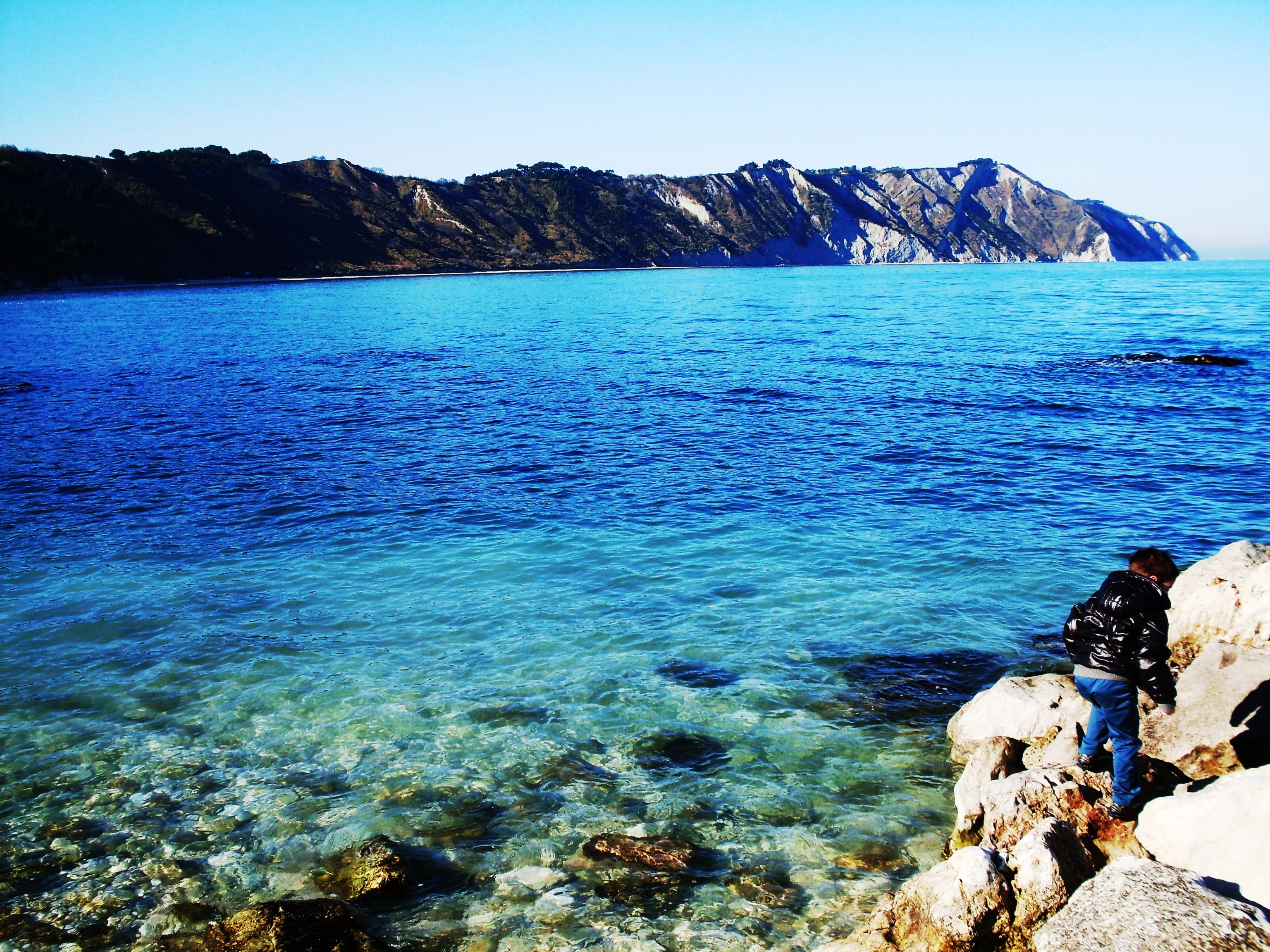 Italy Ancona Portonovo - blu sea